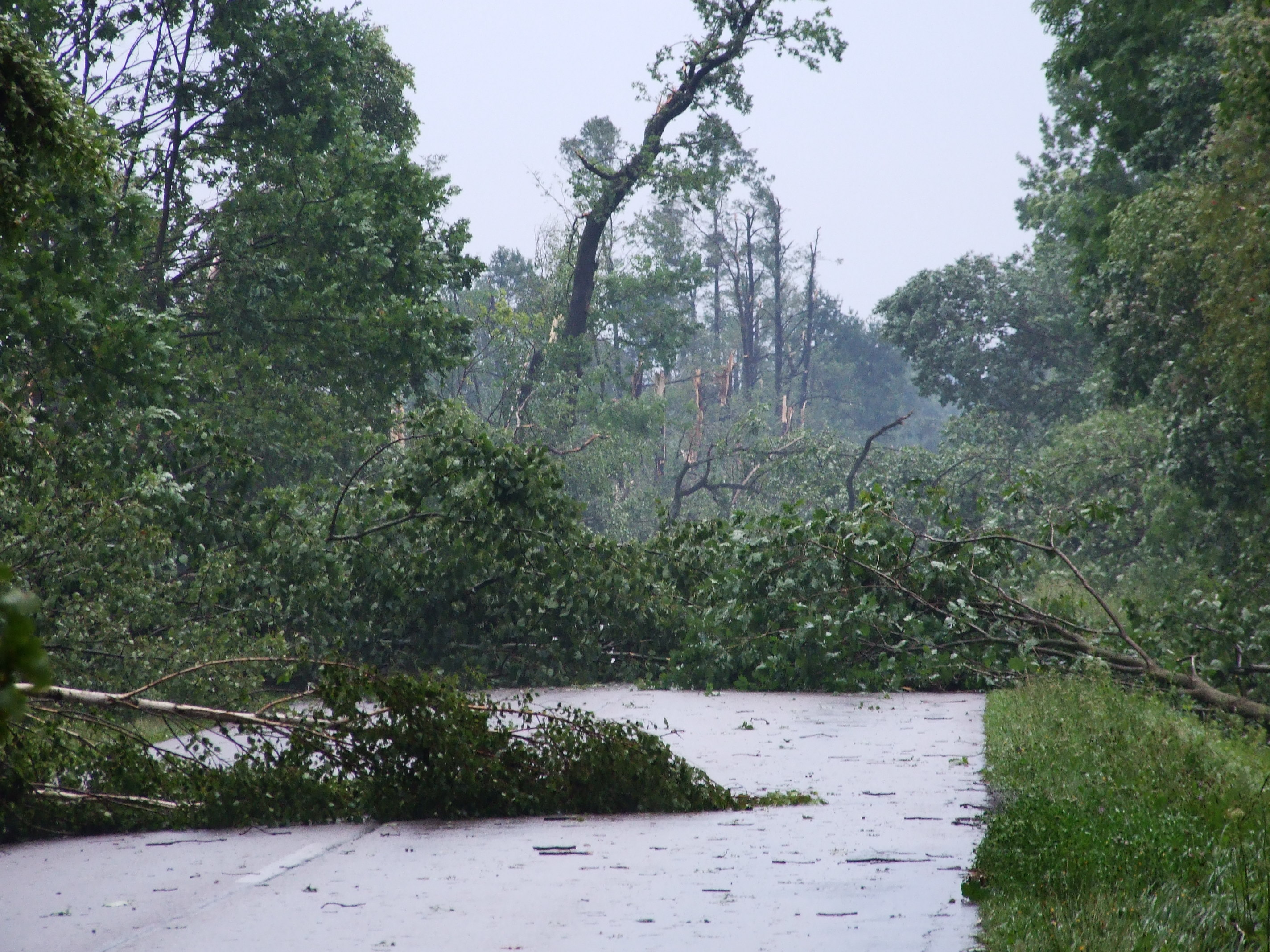 Destructions after F1 tornado hit Koszęcin, Poland.